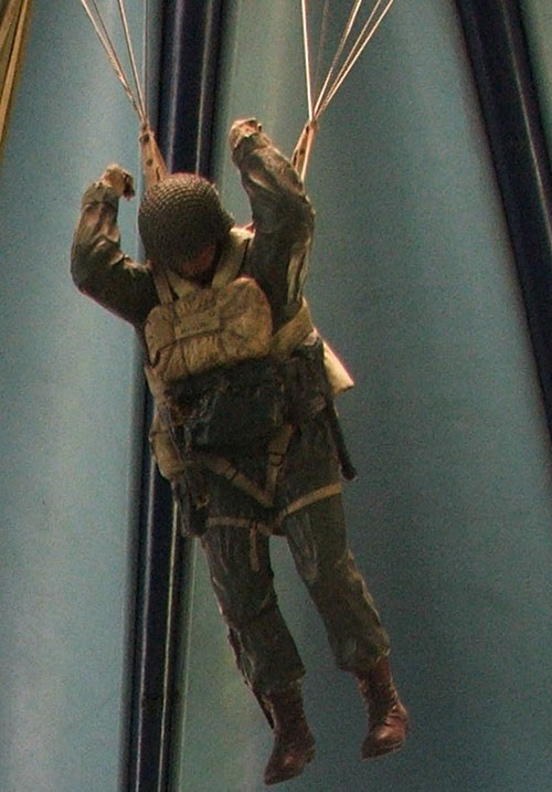 This is a "movie prop" paradummy which was created in the 1960's for the famous war film called "The Longest Day." These highly detailed rubber dummies are often mistaken for real WWII paradummies, however, they do not look anything like the real WWII paradummies. From the Airborne museum in St. Mere Eglise - France.